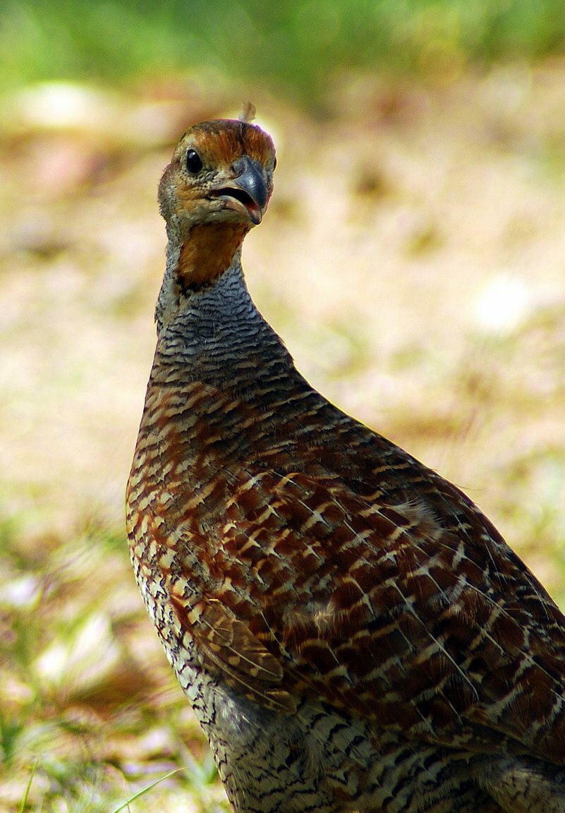 Grey Francolin (Francolinus pondicerianus)